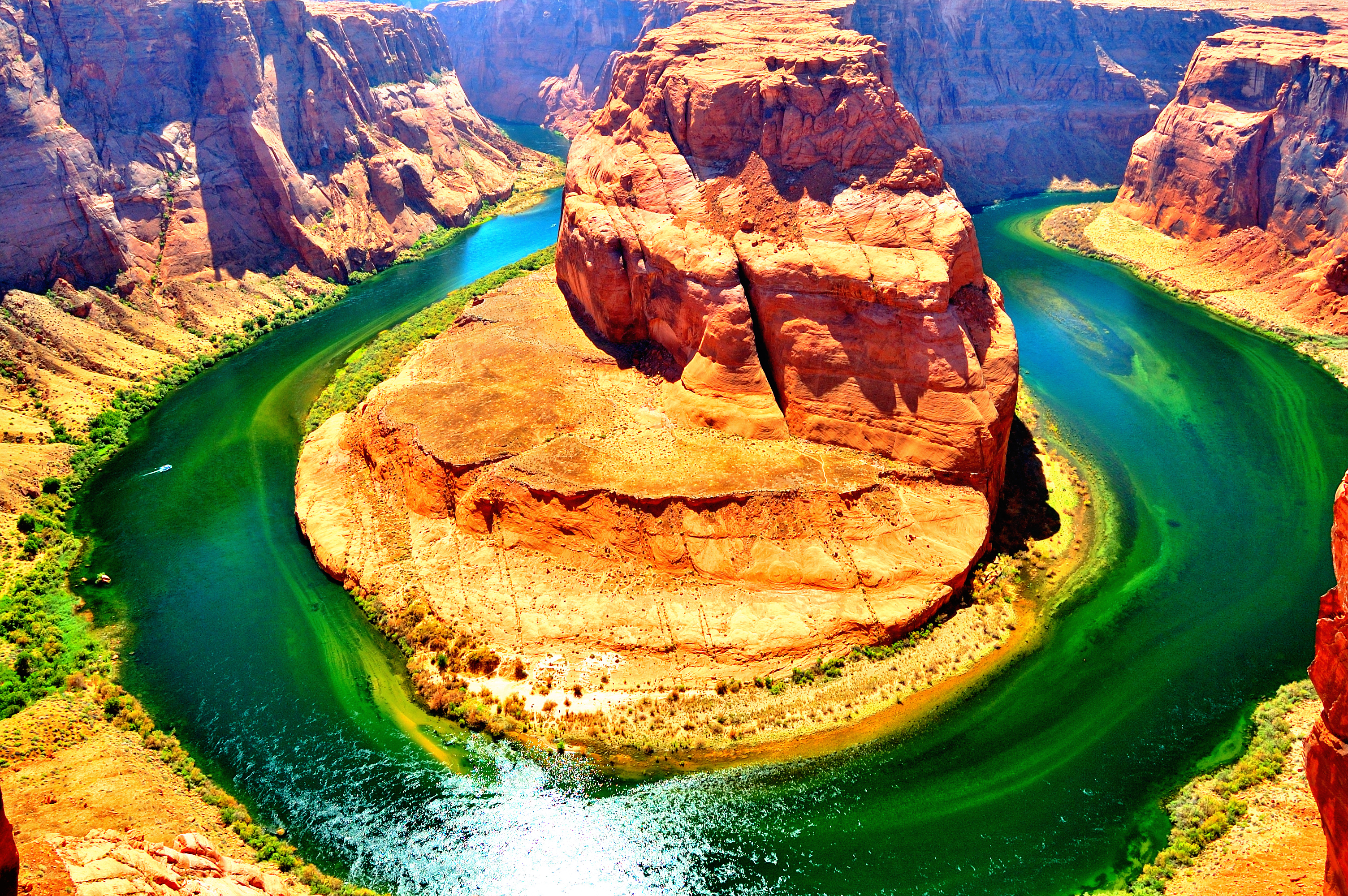 Horseshoe Bend near Page, Arizona. Amazing place !!!